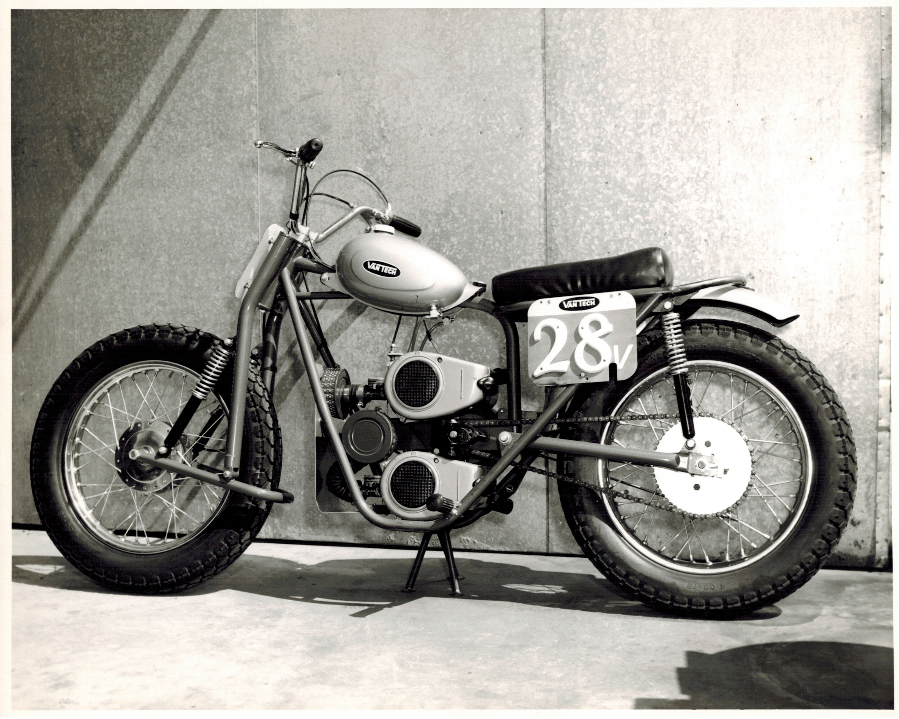 This is my personal photo and I am the author.